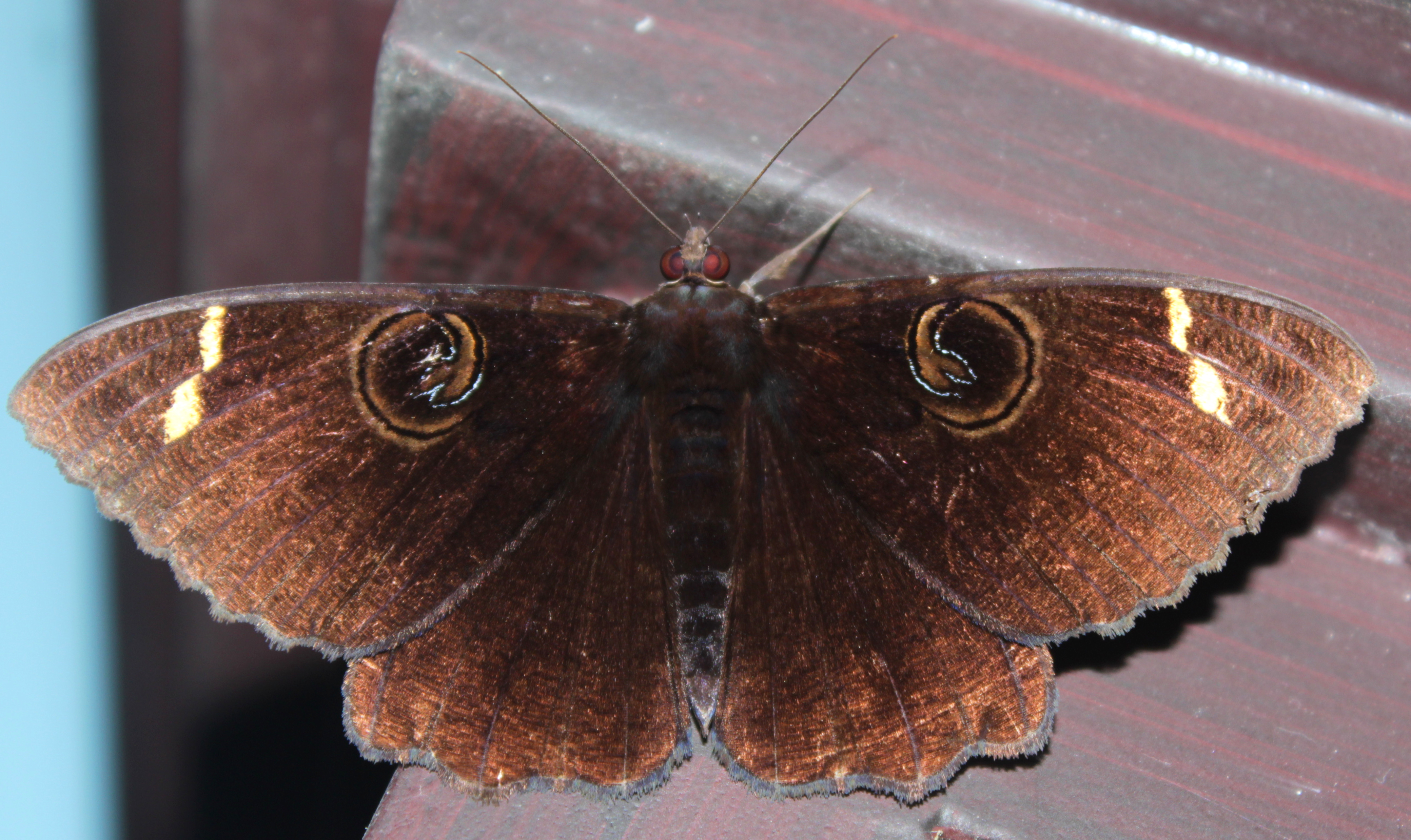 White-barred Owl Moth (Erebus hieroglyphica). Photographed near Thrippunithura, Kerala.